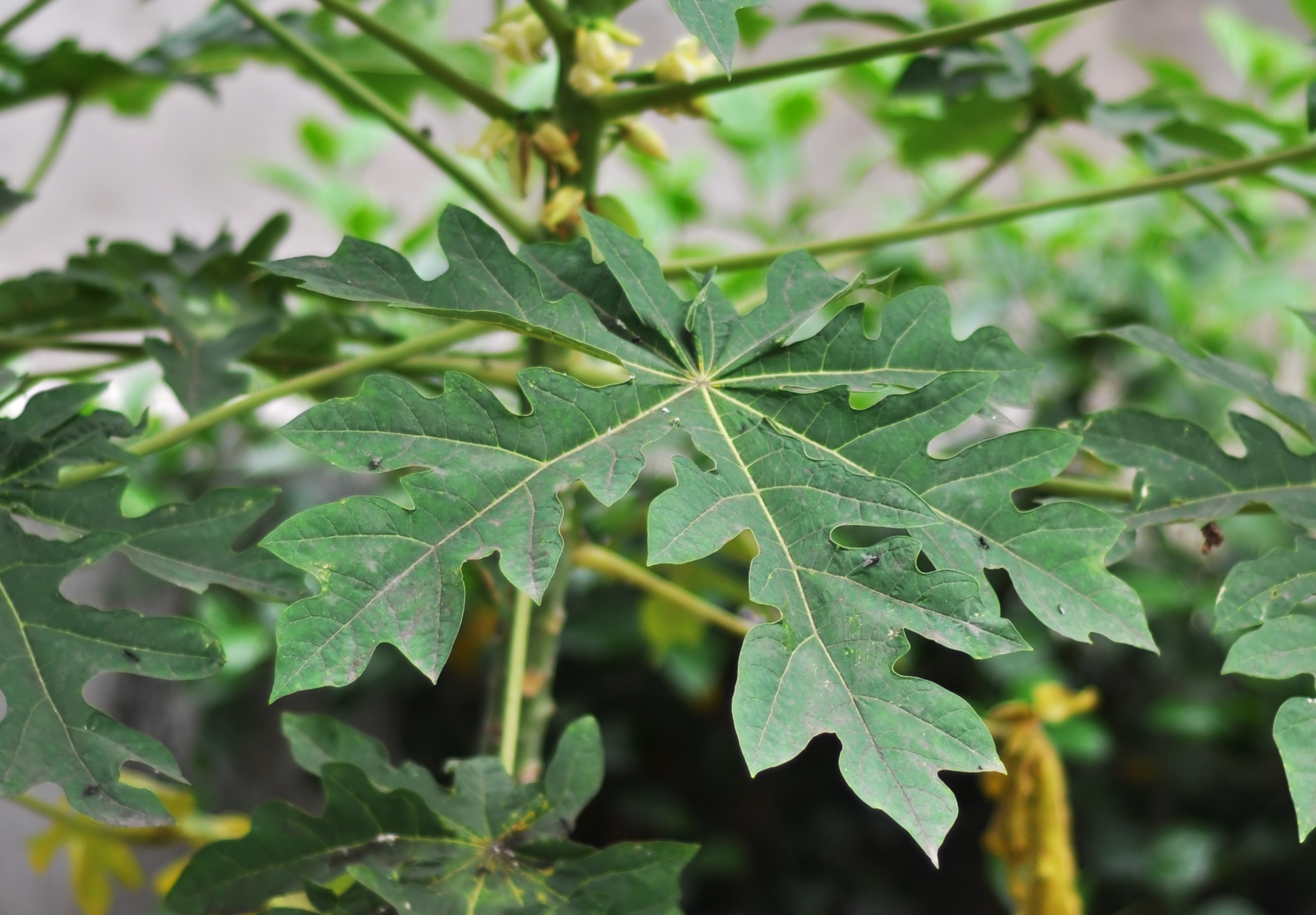 Carica papaya leaf